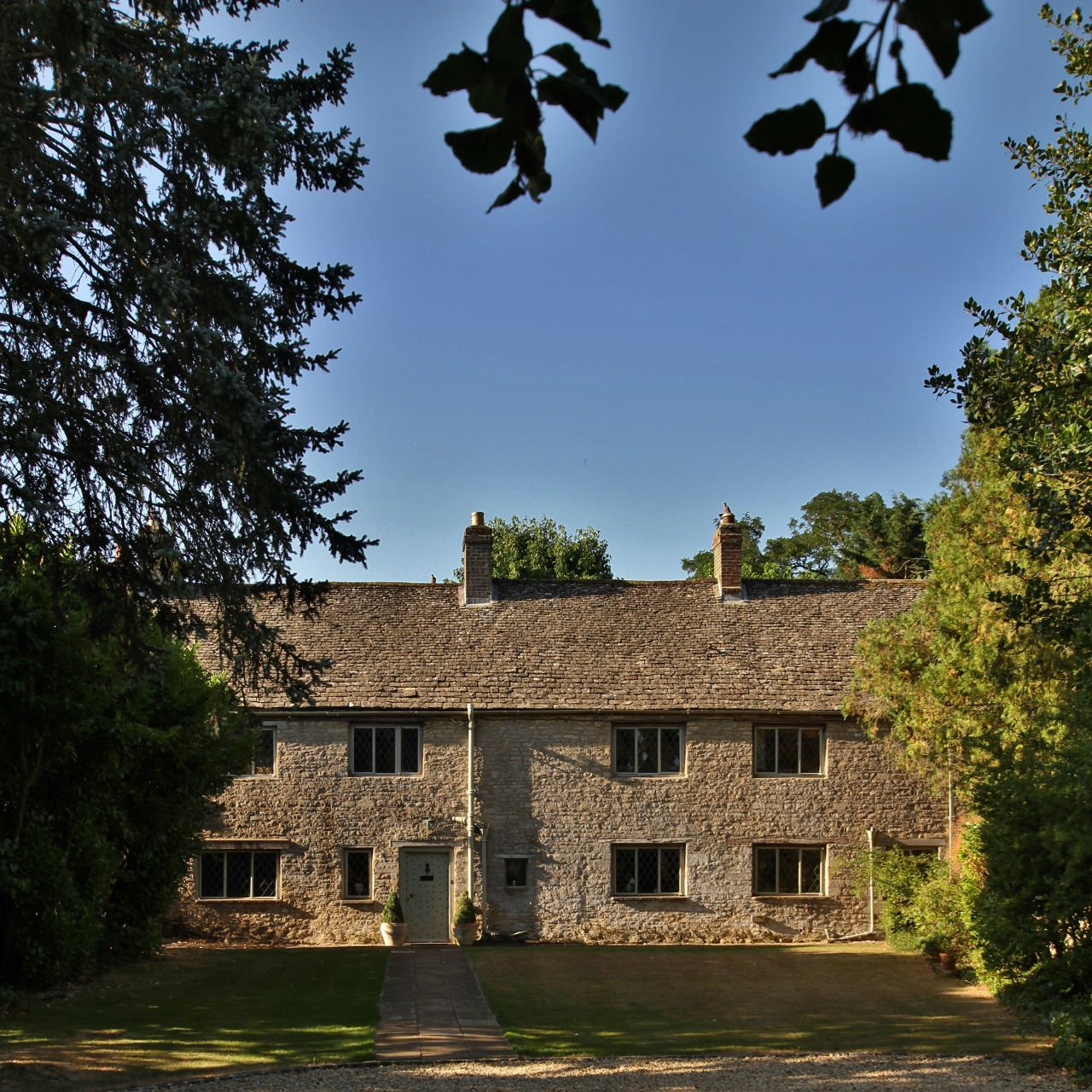 The Old Manor House, Church Farm, Church Lane, Hampton Poyle, Oxfordshire, seen from the north